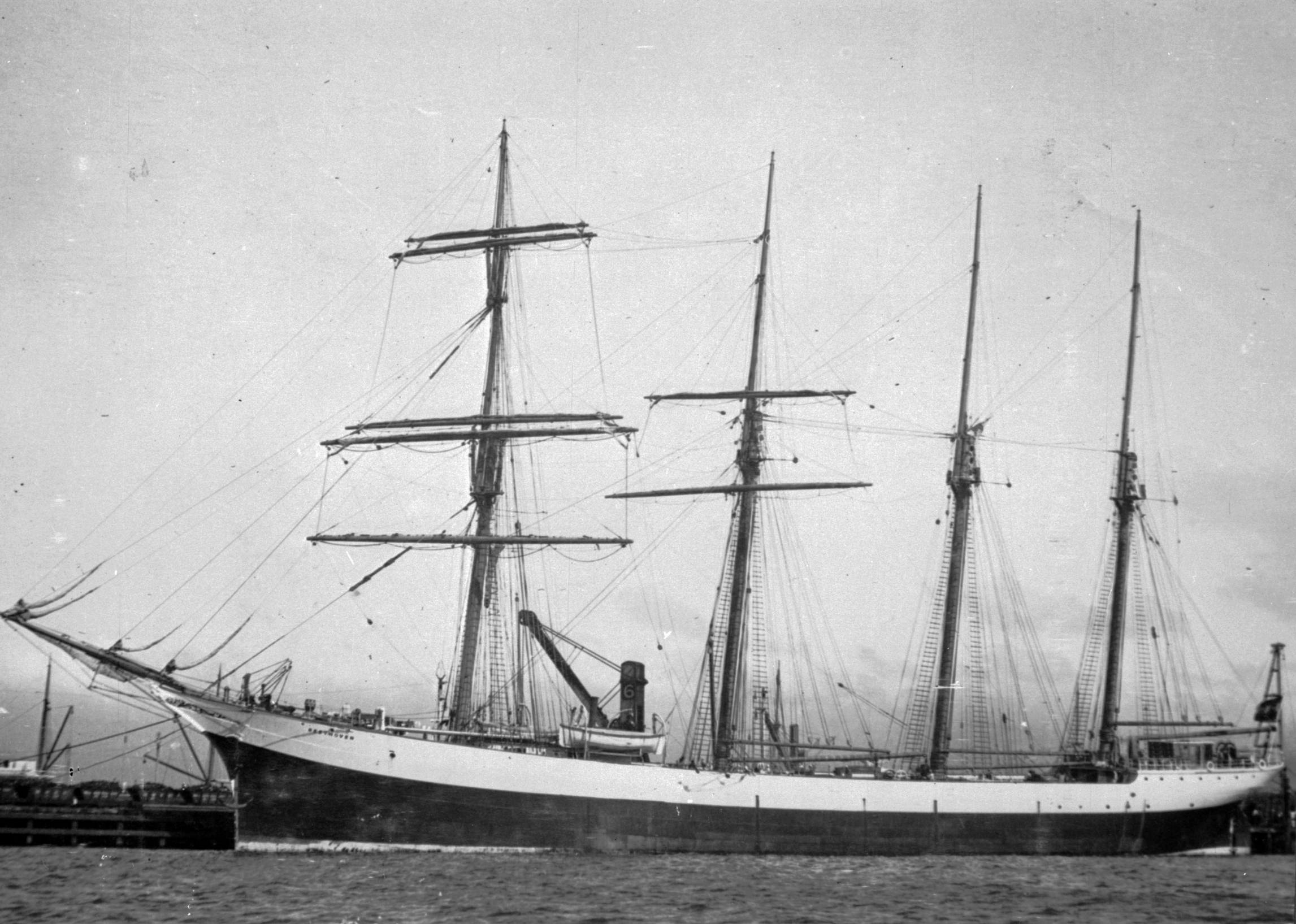 Original caption: “BEETHOVEN. Four masted barquentine (barkentine) at wharf.”